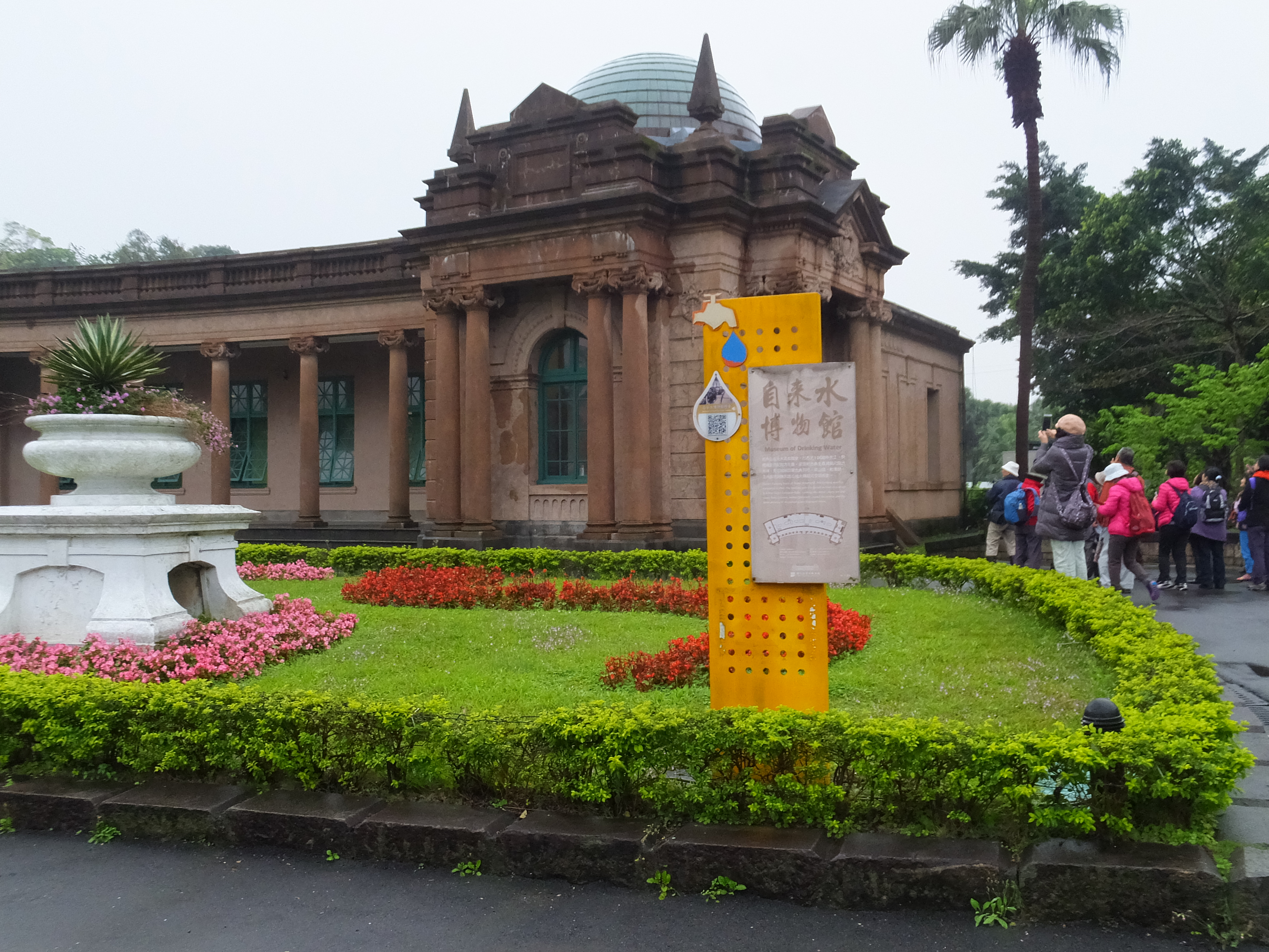 自來水博物館 Museum of Drinking Water